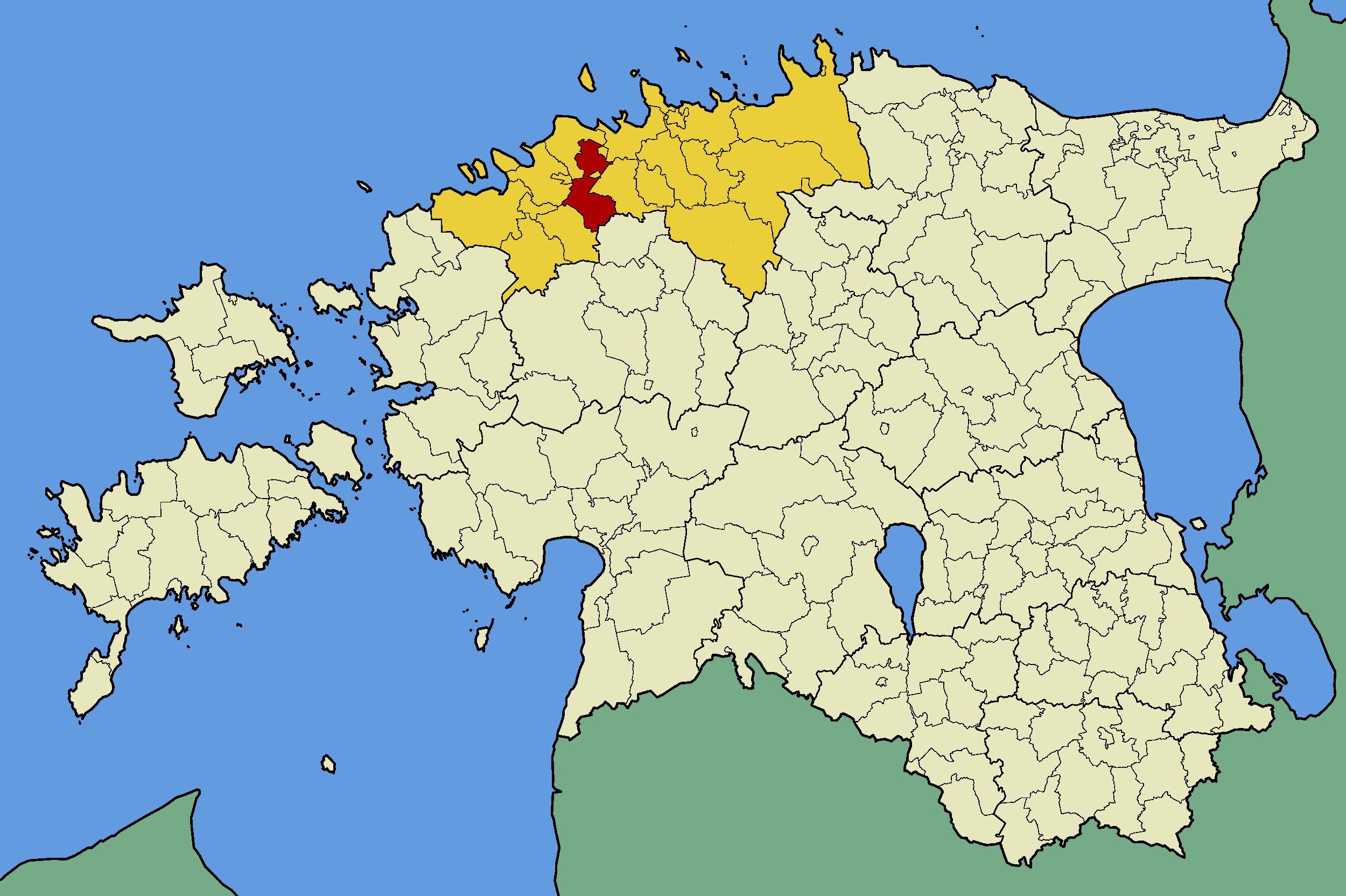 Map of Estonia with borders of municipalities (parishes). Harju county and Saue municipality (parish) emphasized.